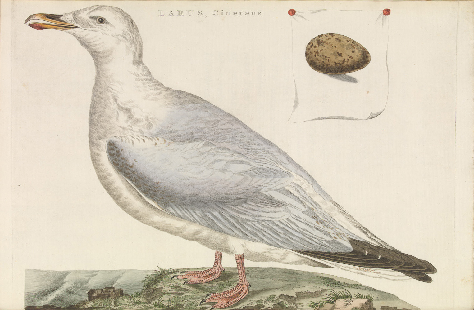 Plate 101 from the Nederlandsche vogelen by Nozeman and Sepp.